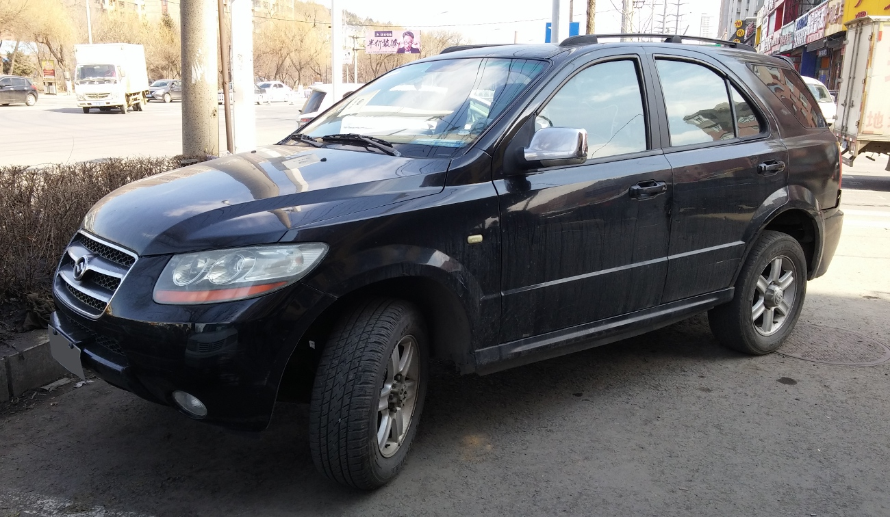 Huanghai Landscape CUV photographed in Jilin City, Jilin province, China.